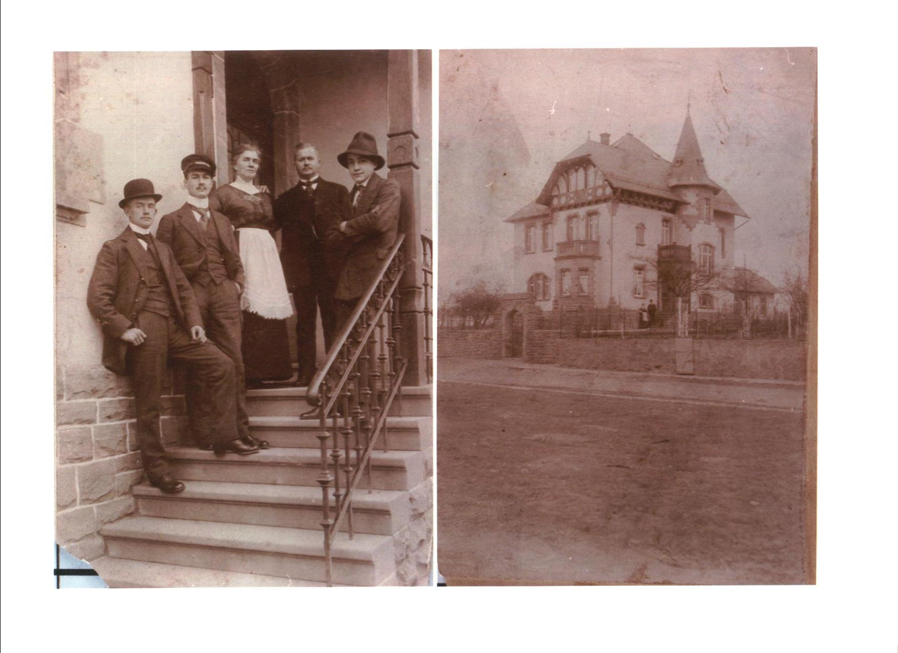 This is a picture of Anton Flettner in his boyhood home in Eddersheim, Germany (today a district of Hattersheim am Main). Anton is the youngest one on the far right. The home was used as a local government building, but more recently has been used as a nursery school. (Family photo; E. Graven) Specifically, the home is located near the River Main at Kornmarktstrasse 4, Eddersheim.